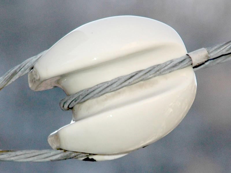 Egg type compression insulator, used to electrically insulate support cables (guy wires) for utility poles and antenna masts. This design utilizes the superior strength of the ceramic material under compression, as opposed to tension, to support higher loads. Also, if the insulator breaks, the ends of the cable remain attached to each other.